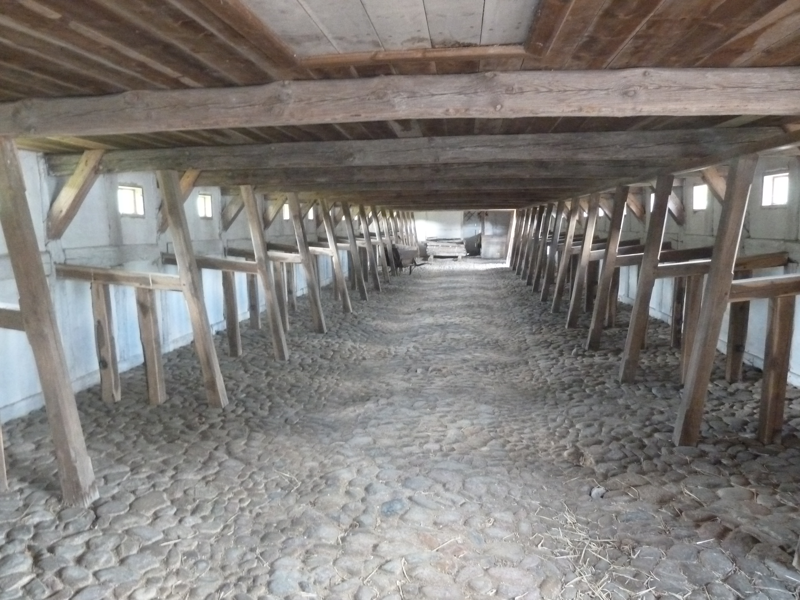 Manor from Fjellerup, Djursland, now on Frilandsmuseet (the open air museum) north of Copenhagen.